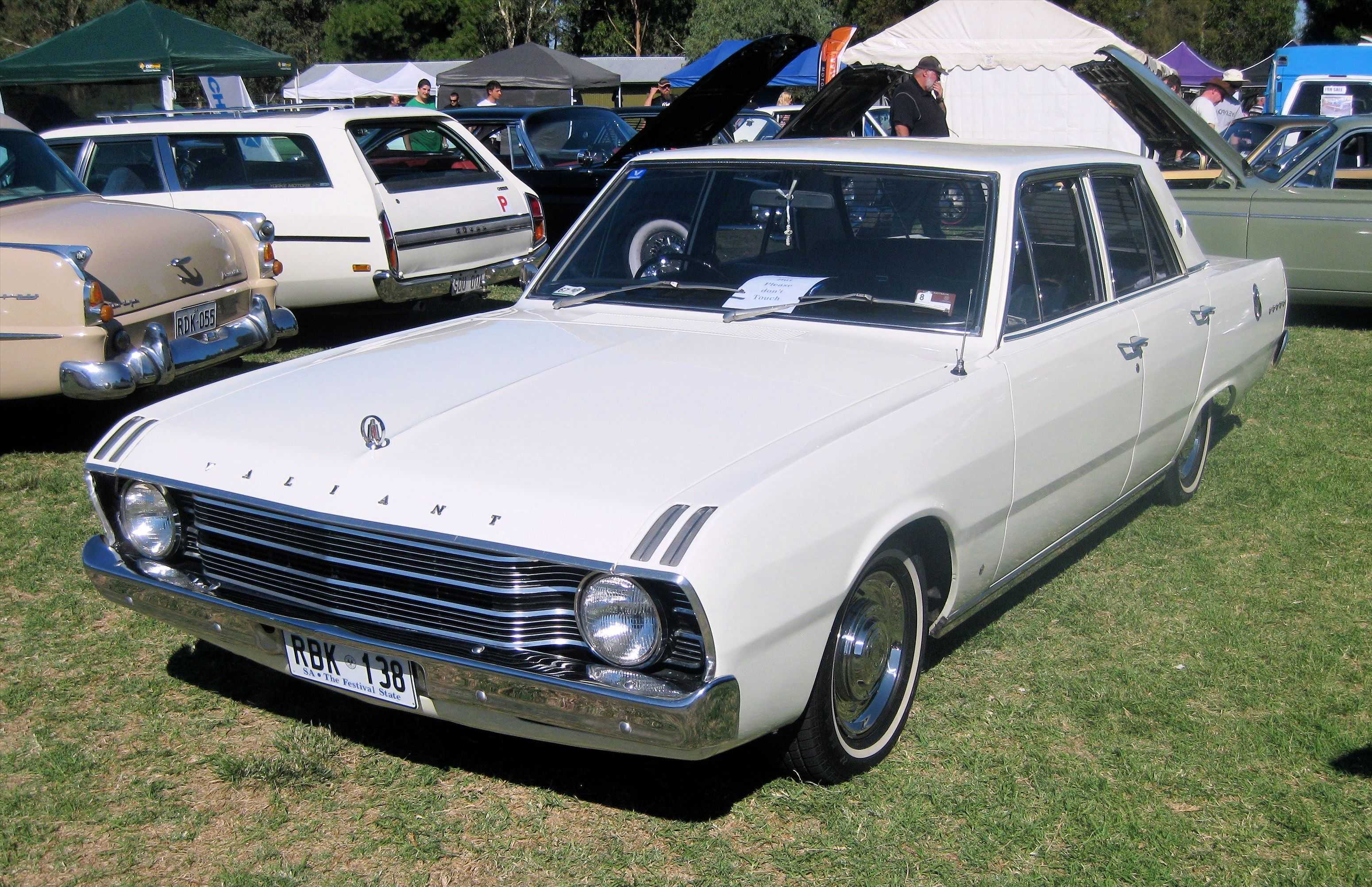 Chrysler VF Valiant Regal Sedan (1969-1970)